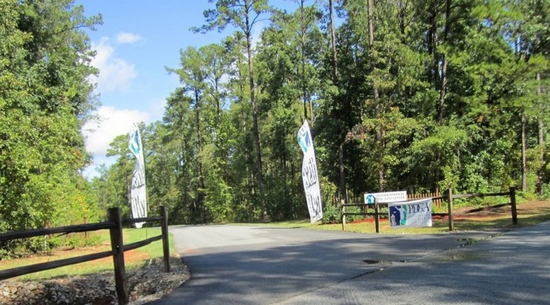 PDGA International Disc Golf Center Wildwood Park A 3828 Dogwood Lane Appling, GA 30802